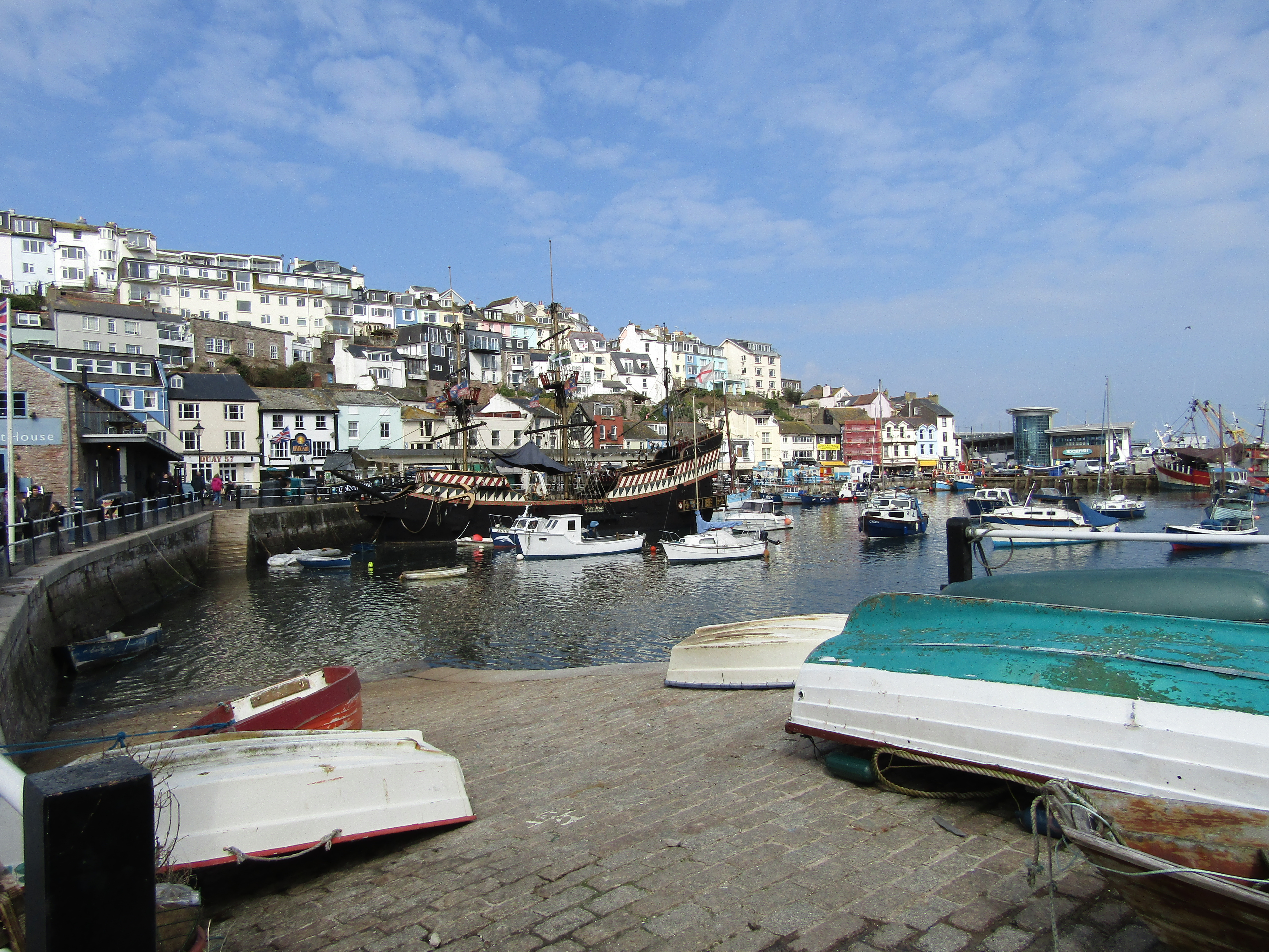 A view of Brixham's inner harbour from the slipway, looking towards the replica of Drake's Golden Hind.